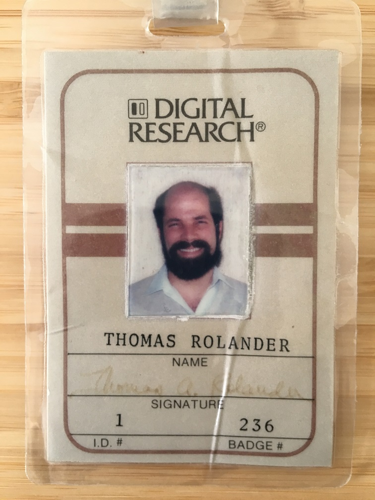 Digital Research Employee Badge, THOMAS ROLANDER, I.D. # 1